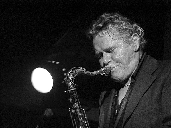 Krister Andersson i Aarhus